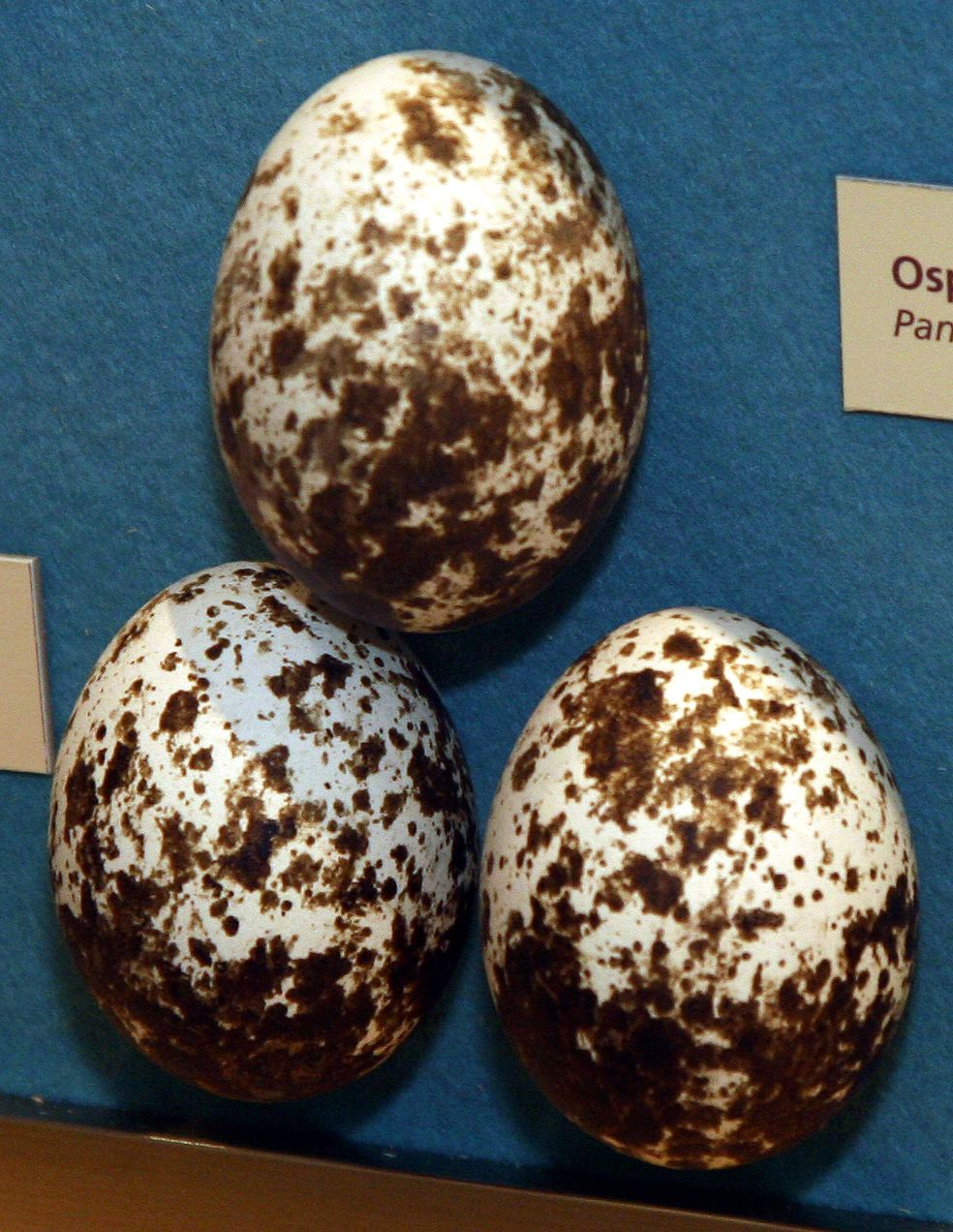 Location taken: Delaware Museum of Natural History, Wilmington, Delaware.. Names: Pandion haliaetus (Linnaeus, 1758), Aculoccia di mari, Aguia peixeira, Águia pesqueira, águia-pescadora, Águia-pescadora / Águia-pesqueira, Águia-pesqueira, Àguila peixatera, Águila pescadora, Alpana, American osprey, Arpa, Arrano arrantzale, Àwòdì apẹja, Balbuzard P, balbuzard pÃªcheur, balbuzard pêcheur, balbuzard pícheur, Balık kartalı, Bukoč, Burung Helang Tiram, Çay qaraquşu, Chim ó cá, Ciekcá, Coirneach, Elang Tiram, Erelis žuvininkas, Erer spluj, Erer-spluj, Falco pescatore, Fiŝaglo, Fischadler, fish eagle, fish hawk, fishing eagle, Fiskearn, Fiskeørn, Fiskgjuse, fiskiørn, Gavil, Gavilán pescador, GavilÃ¡n pescador, Gjóður, Guincho, Gwalch y Pysgod, Halászsas, Haliaeetos, Kalakotkas, Kalasääski, Koho, kršiak rybár, Mar aglo, Mar-aglo, Misago, Ó cá, Orlovec rícní, Osprey, Pandion haliaetus, Ribji orel, rybolów, rybołów, rybołów (zwyczajny), Rybołów zwyczajny, Sääksi, sääksi (kalasääski), sea hawk, Seahawk, Shawk eeastee, Shqiponja peshkngrënëse, Skopa, Taguato rye morotî, Tónteel giní, Vèserend